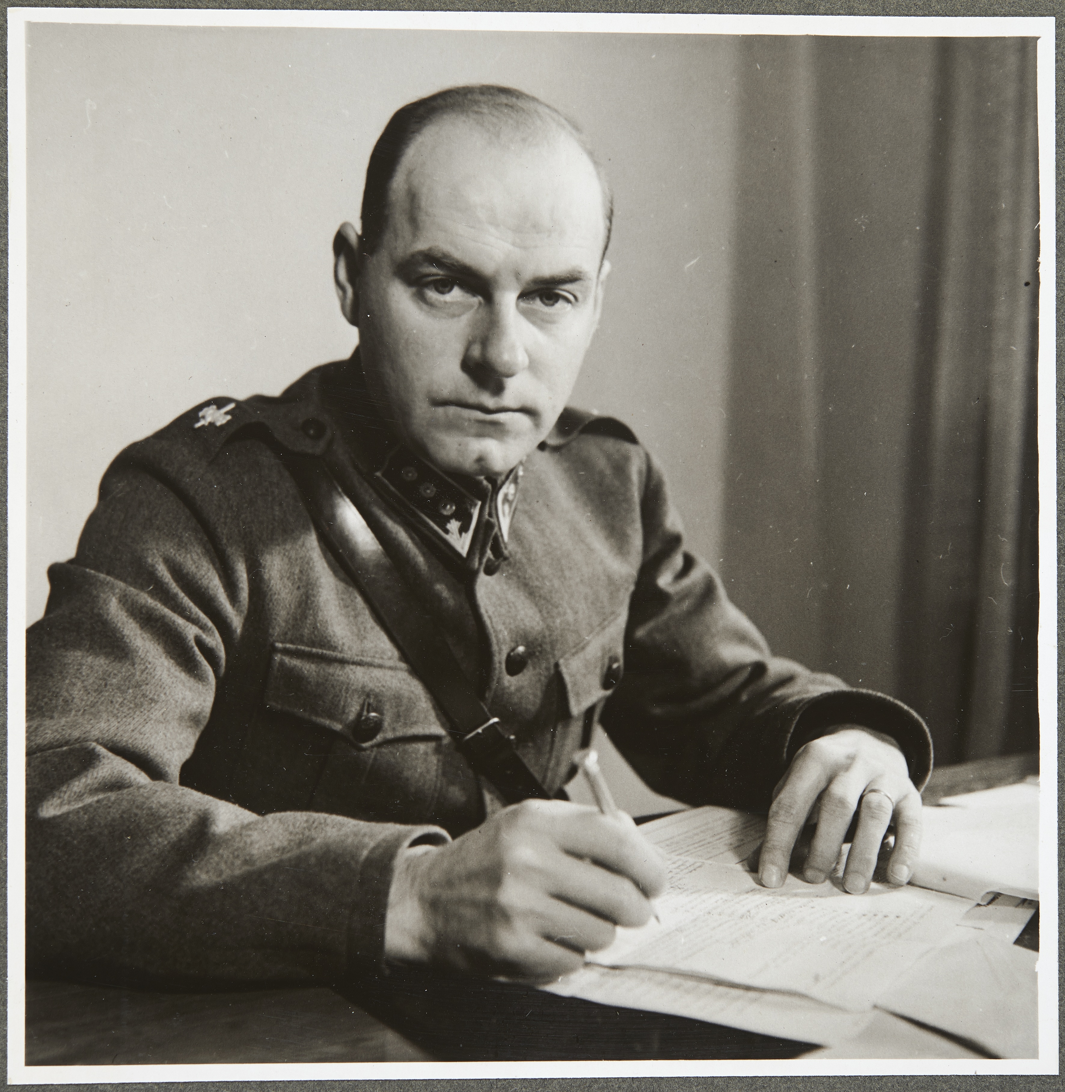 Photograph of the Finnish scholar Lauri Aadolf Puntila (1907–1988) in military uniform.